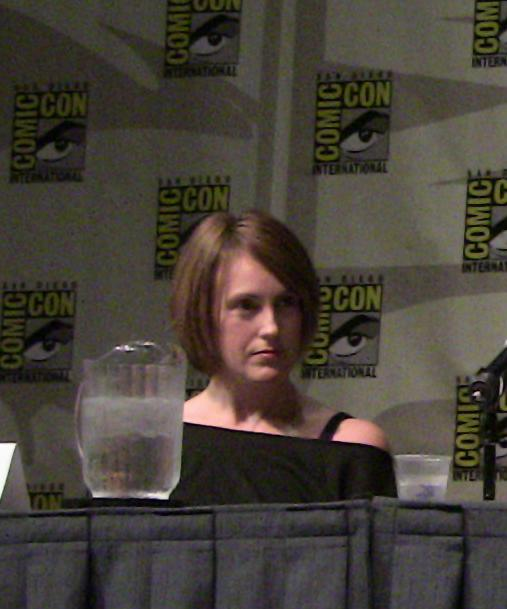 Screenwriter Kelly Souders – Comic-Con 2009 - Smallville - San Diego, Calif. - July 26, 2009.